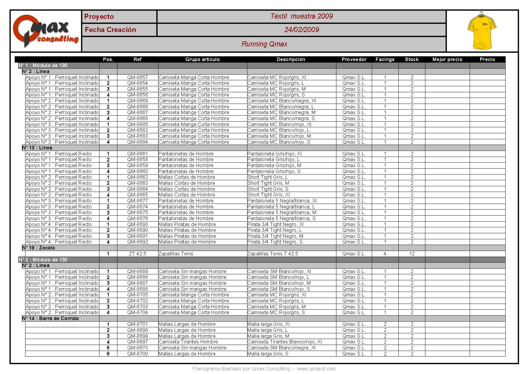 Planogram Table